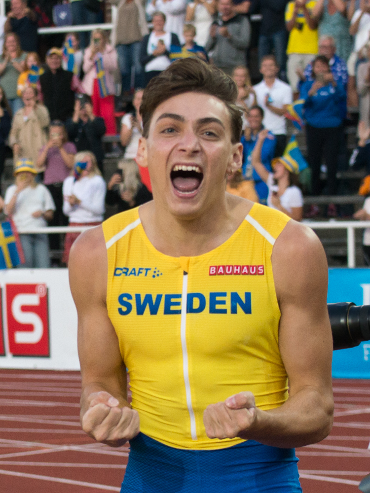 Armand Duplantis jumps 6.0 meters in pole at Stockholm Stadium on August 24, 2019.